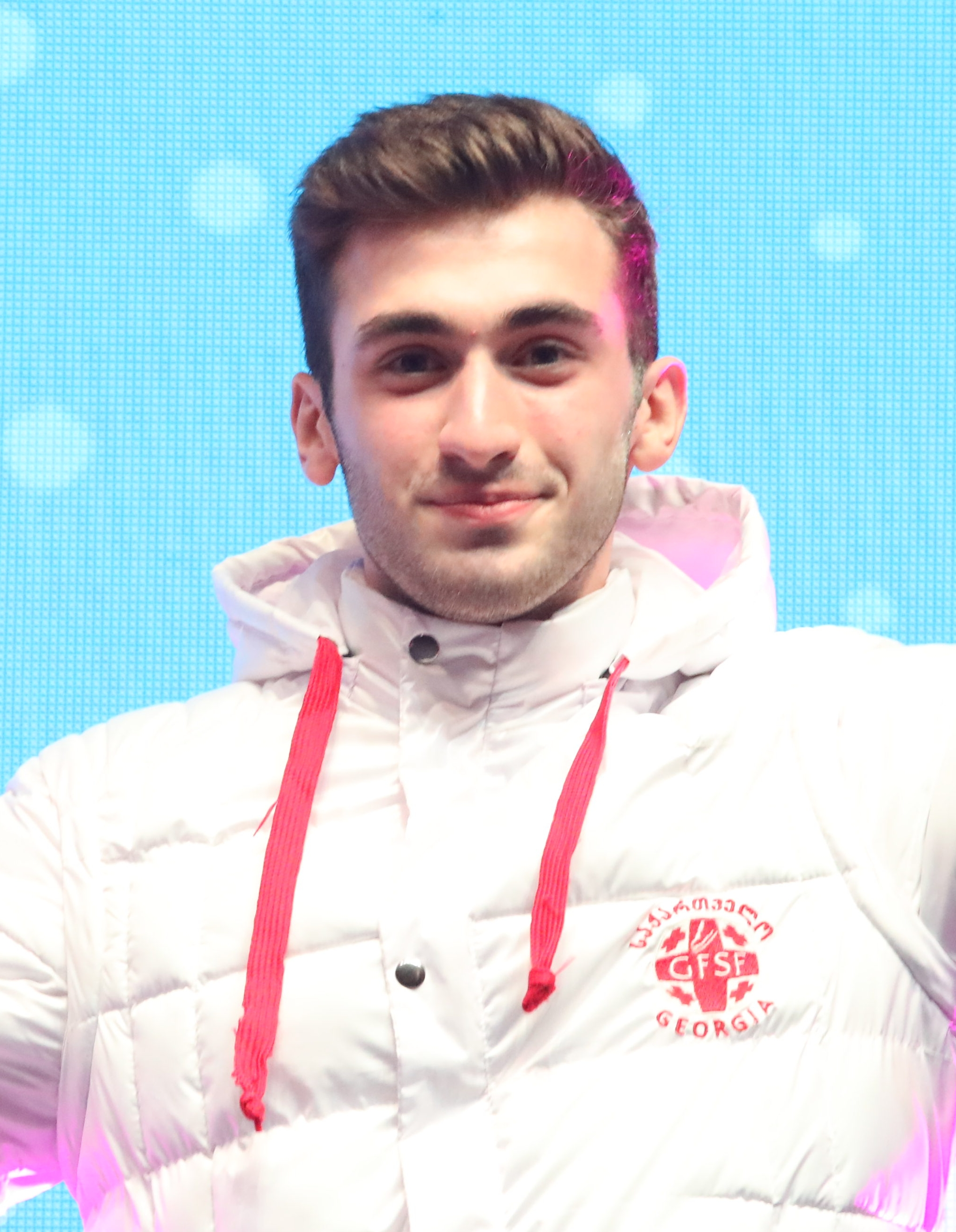 Medal Ceremony Day 3, 2020 Winter Youth Olympics in Lausanne